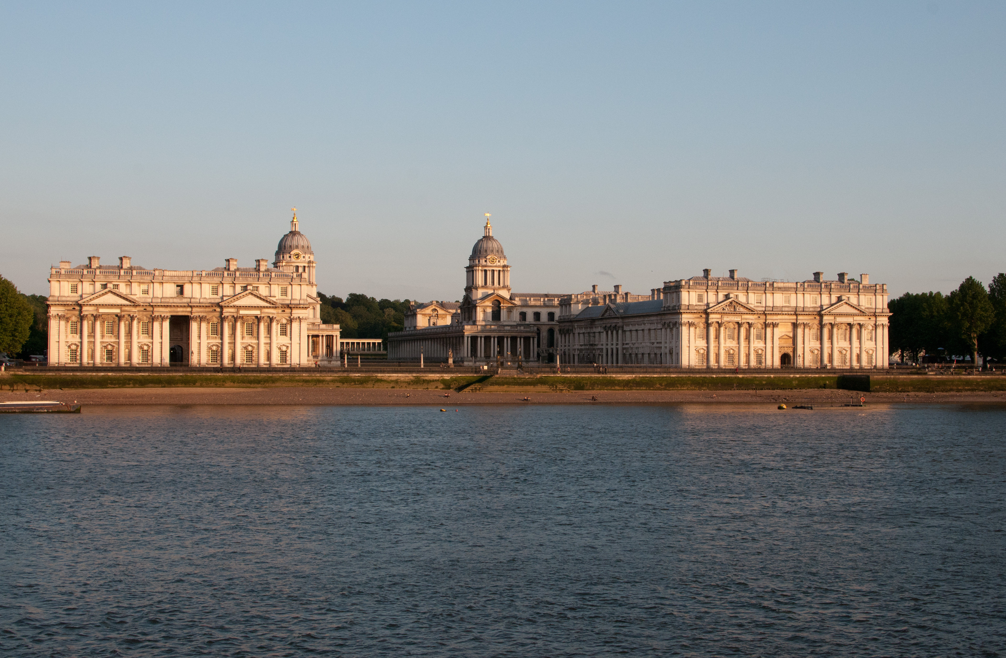 Greenwich, National Maritime Museum, view Riverside